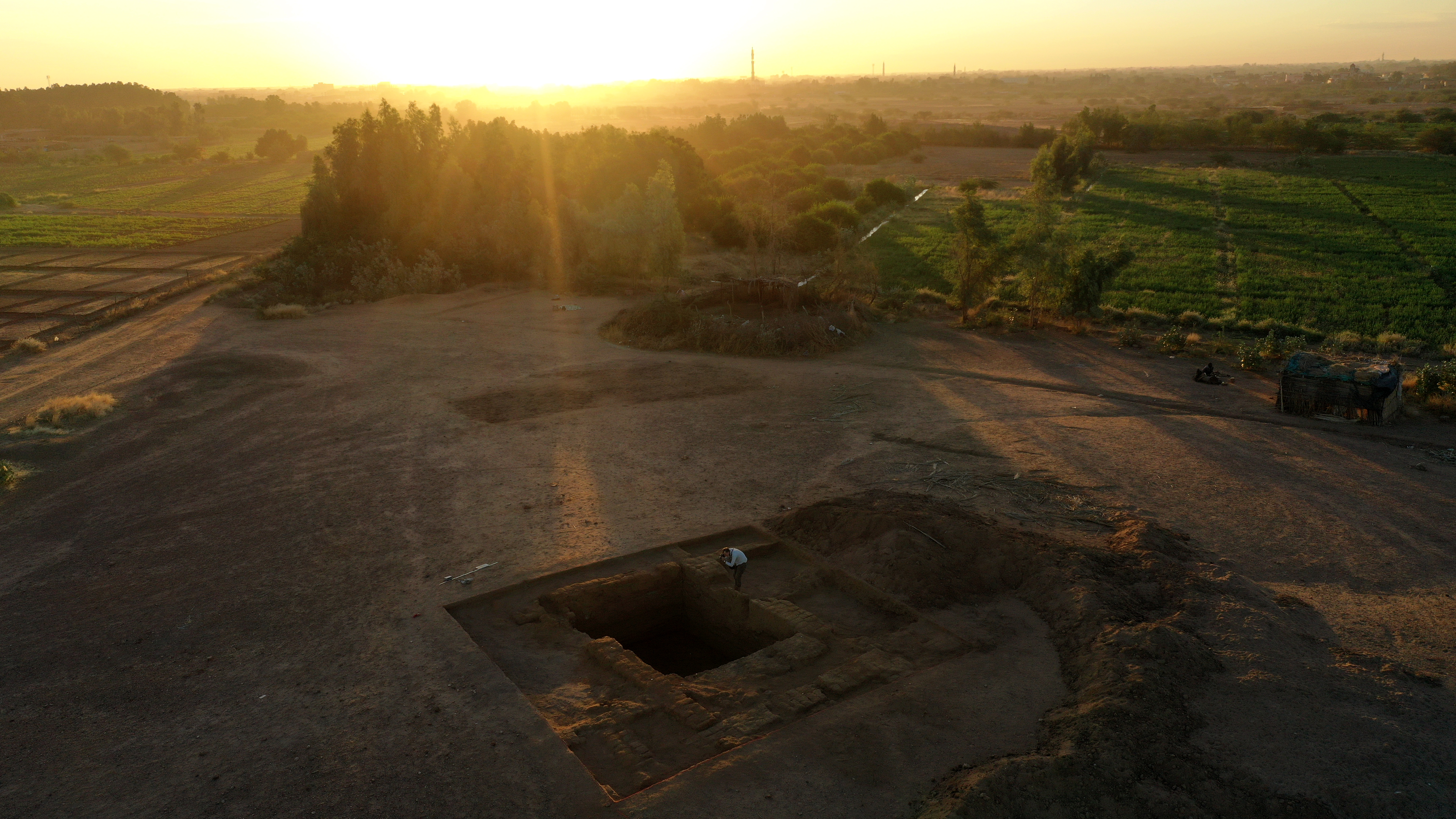 In Sudan, archaeologists arrive at work in the early morning. It is necessary to make photographic documentation before the Sun rises high. On the image, you can see archaeological trench, explored in November and December 2019. It is exposing mud-brick architecture. In medieval times the entire area, including the fields and the nearby orchards seen on the photo, was part of a large city, the capital of the kingdom of Alwa (Khartoum Province, Sudan).